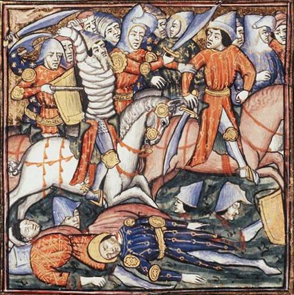 Livy, Histoire romaine. Translation from the Latin by Pierre Bersuire: The battle of Cannae Place of origin, date: Paris, follower of the Luçon Master, First Master of the Grande Bible Historiale Complétée of Jean, Duc de Berry (Paris, BNF, fr. 159) or Ravenelle Master (illuminators); c. 1390-1400 Material: Vellum, ff. 228+196+160 (3 vols.), 415x303 (279x188) mm, 52 lines, littera textualis, Bindings: 18th-century brown leather; gilt Decoration: Vol. I: 1 two-column miniature (145x185 mm); 9 column miniatures (80/70x85/80 mm); 2 illustrations in the margin (emblems); decorated initials with border decoration (ff. 9r, 12v, 19r, 23v, 26v, etc.); penwork initials throughout. Vol. II: 1 two-column miniature(154x185 mm); 9 column miniatures (100/80x105/80 mm); 2 illustrations in the margin (emblems); decorated initials with border decoration (ff. 5r, 8r, 25r, 46r, 64r, etc.); penwork initials throughout. Vol. III: 1 two-column miniature (140x188 mm); 8 column miniatures (85/70x90/80mm); 2 illustrations in the margin (emblems); decorated initials with border decoration (ff. 5r, 10r, 22v, 36r, 55r, etc.); penwork initials throughout. Added: coats of arms, emblems and motto of Philip of Cleves on the opening pages of all three volumes Provenance: possibly made for Bertrando de Rossi, Count of San Secundo (emblem). Louis de Luxembourg, connétable de France (d. 1475; signature); by descent to his granddaughter Françoise de Luxembourg and her husband Philip of Cleves (d. 1528; coats of arms, emblems, motto;signature); purchased in 1531 from Philip's estate by Henry III, Count of Nassau (d. 1538); by descent to the Princes of Orange-Nassau, the later Stadholders, at The Hague; carried off in 1795 to Paris by the French and restituted to the Koninklijke Bibliotheek in 1816